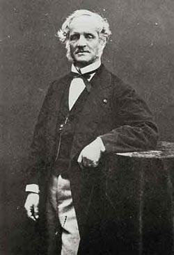 A photograph of Greek statesman Alexandros_Rizos_Rangavis (commonly also Rhangabe) (December 25, 1810–June 28, 1892) taken in 1869